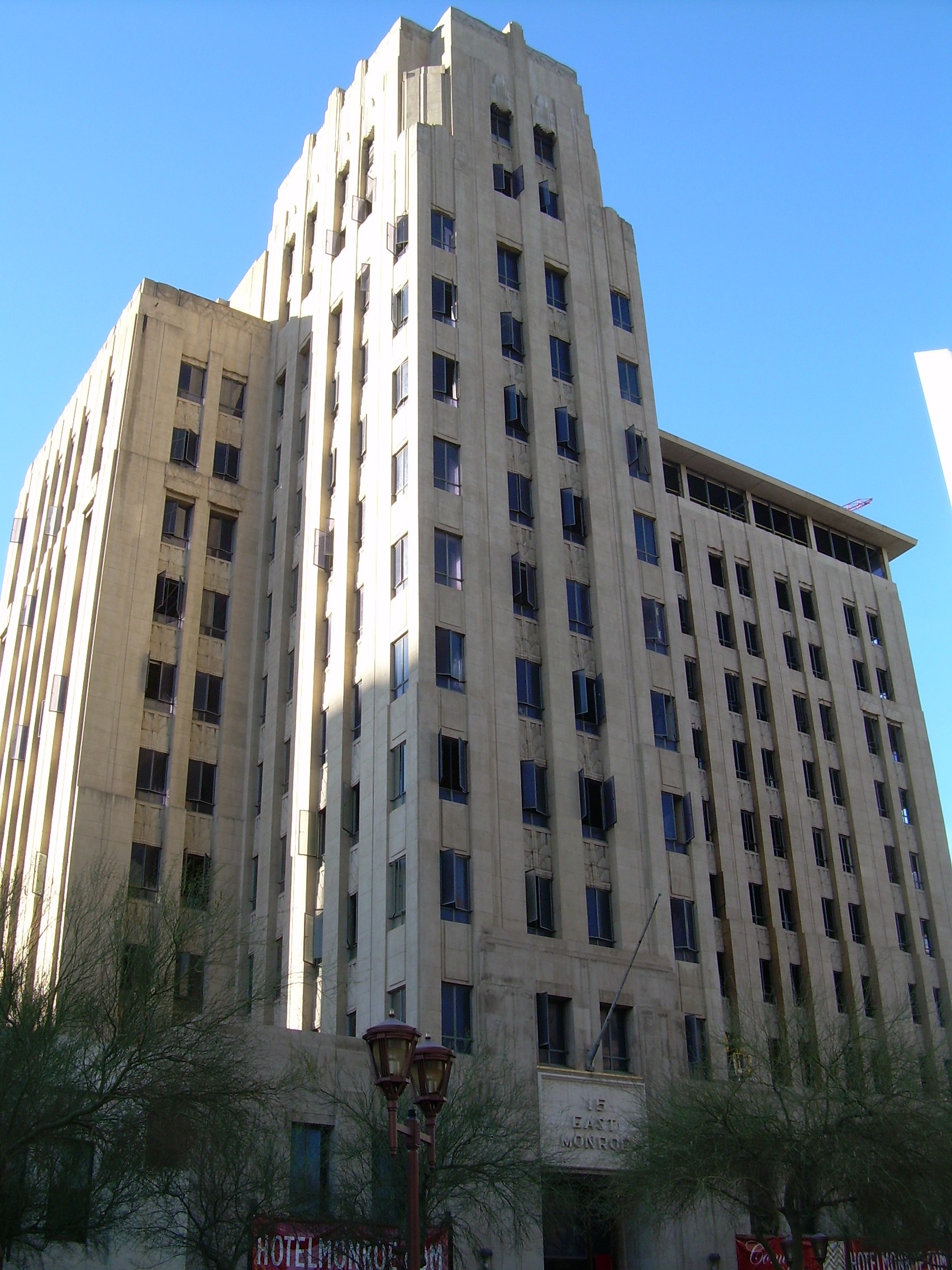 Professional Building, now The Monroe Hotel